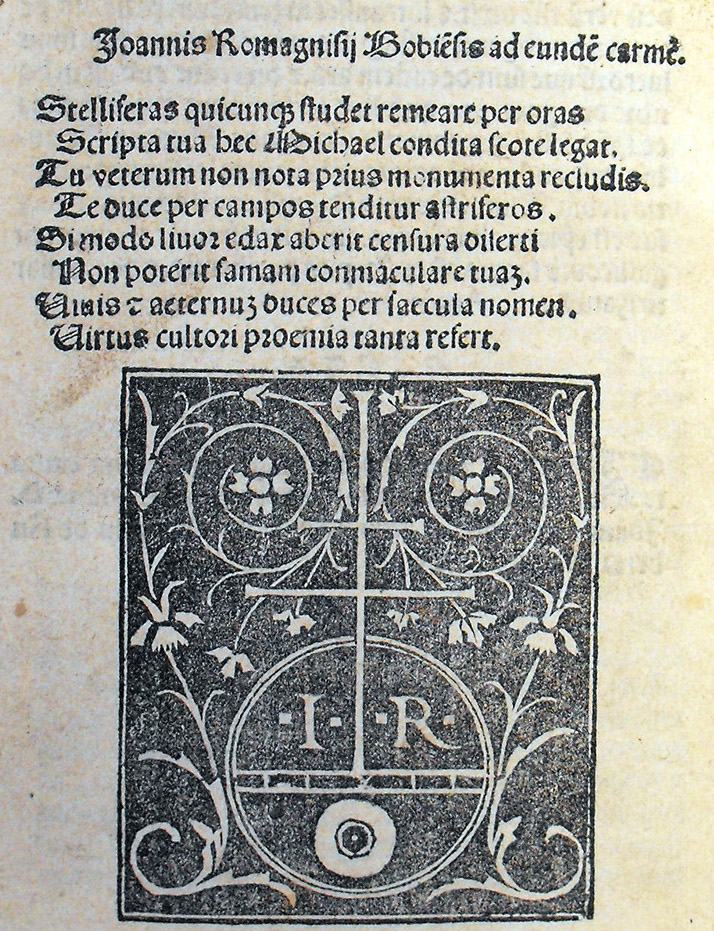 The title page of a commentary on the Sphaera mundi of Sacro Bosco. Eximij atq[ue] excellentissimi physicoru[m] motuum cursusq[ue] syderei indagatoris Michaelis Scoti Sup[er] auctor[em] Sperae cu[m] questionibus diligenter emendatis incipit expositio [con]fecta illustrissimi imp[er]atoris D[omi]ni D. Fedrici precibus.//